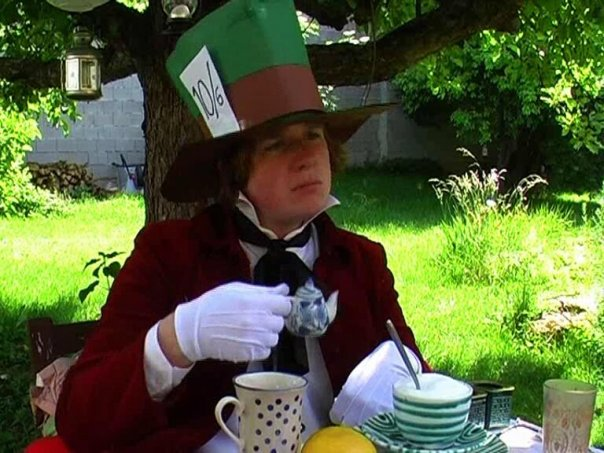 an interpretation of the mad hatter from 'Alice in Wonderland'